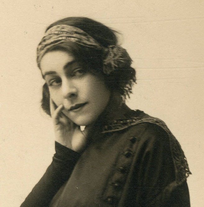 Portrait of Russian-American actress Alla Nazimova (1879–1945).